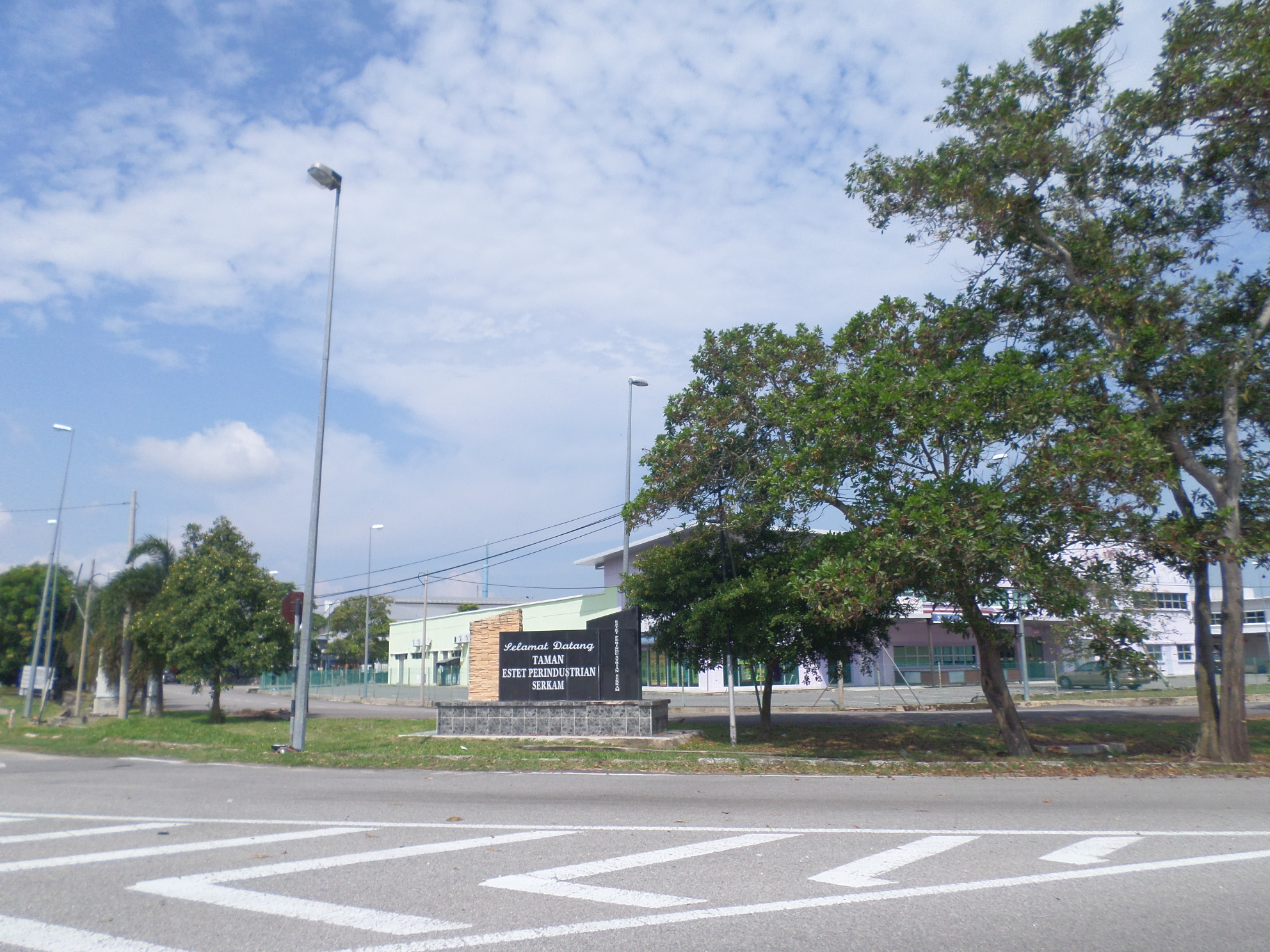 Serkam Industrial Area, Serkam, Jasin, Melaka, MalaysiaBahasa Melayu: Taman Estet Perindustrian Serkam, Serkam, Jasin, Melaka, Malaysia